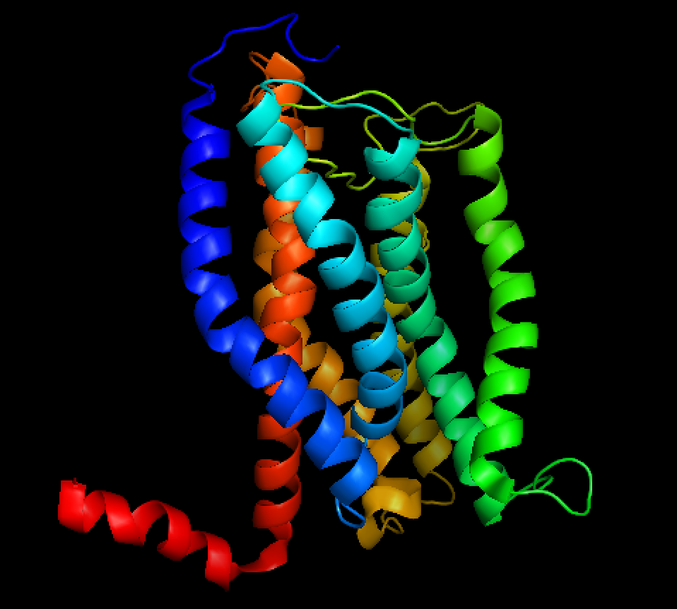 A ribbon-cartoon 3D model of IL-8RA. IL-8RB is almost identical in structure. Structure was generated using information from PDB.